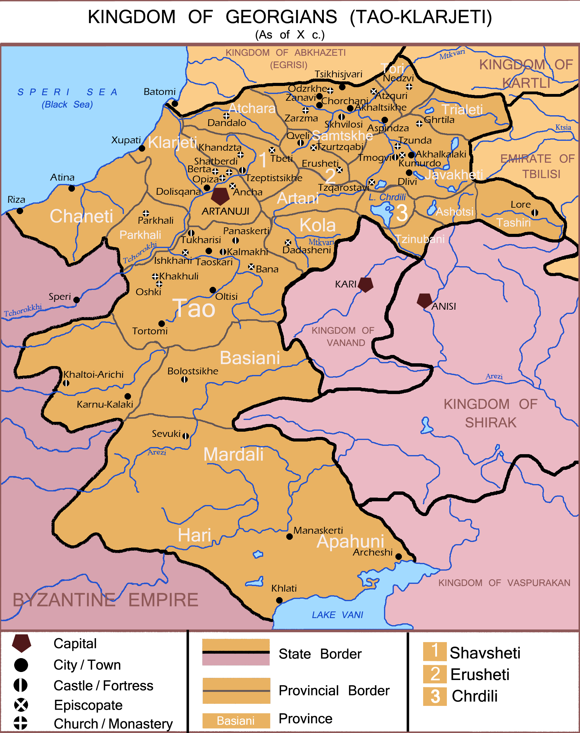 Georgian Bagrationi Kingdom of Tao-Klarjeti; "Kartvelta Samepo" ("ქართველთა სამეფო") – Kingdom of Kartvels aka Georgians.